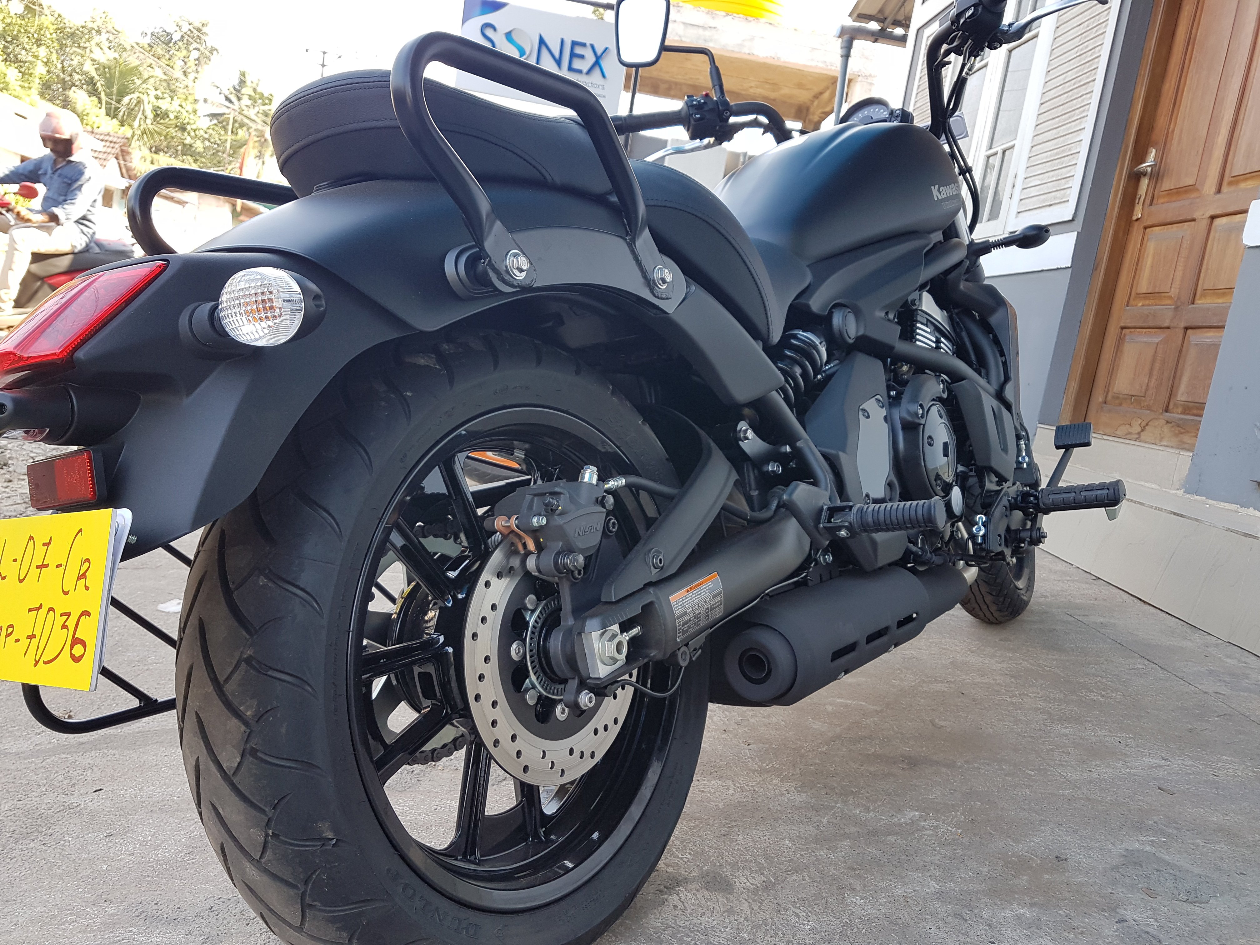 Vulcan S 650cc